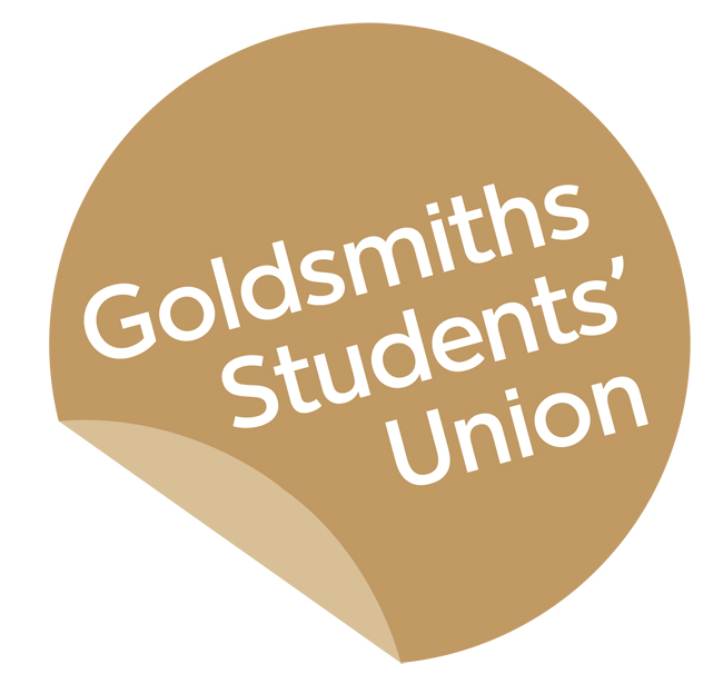 Goldsmiths Students' Union logo